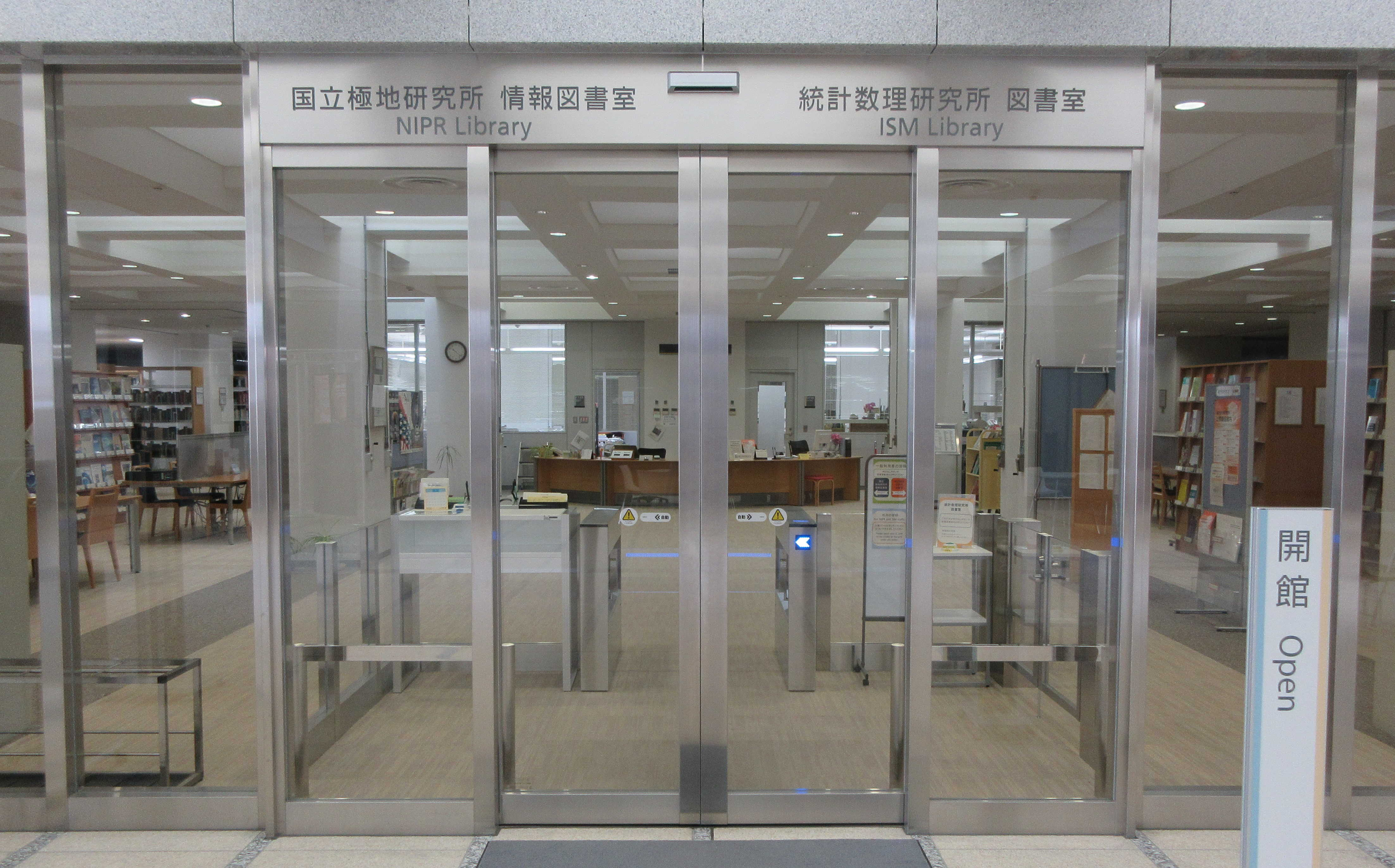 The Library of the National Institute of Polar Research and The Institute of Statistical Mathematics Library.